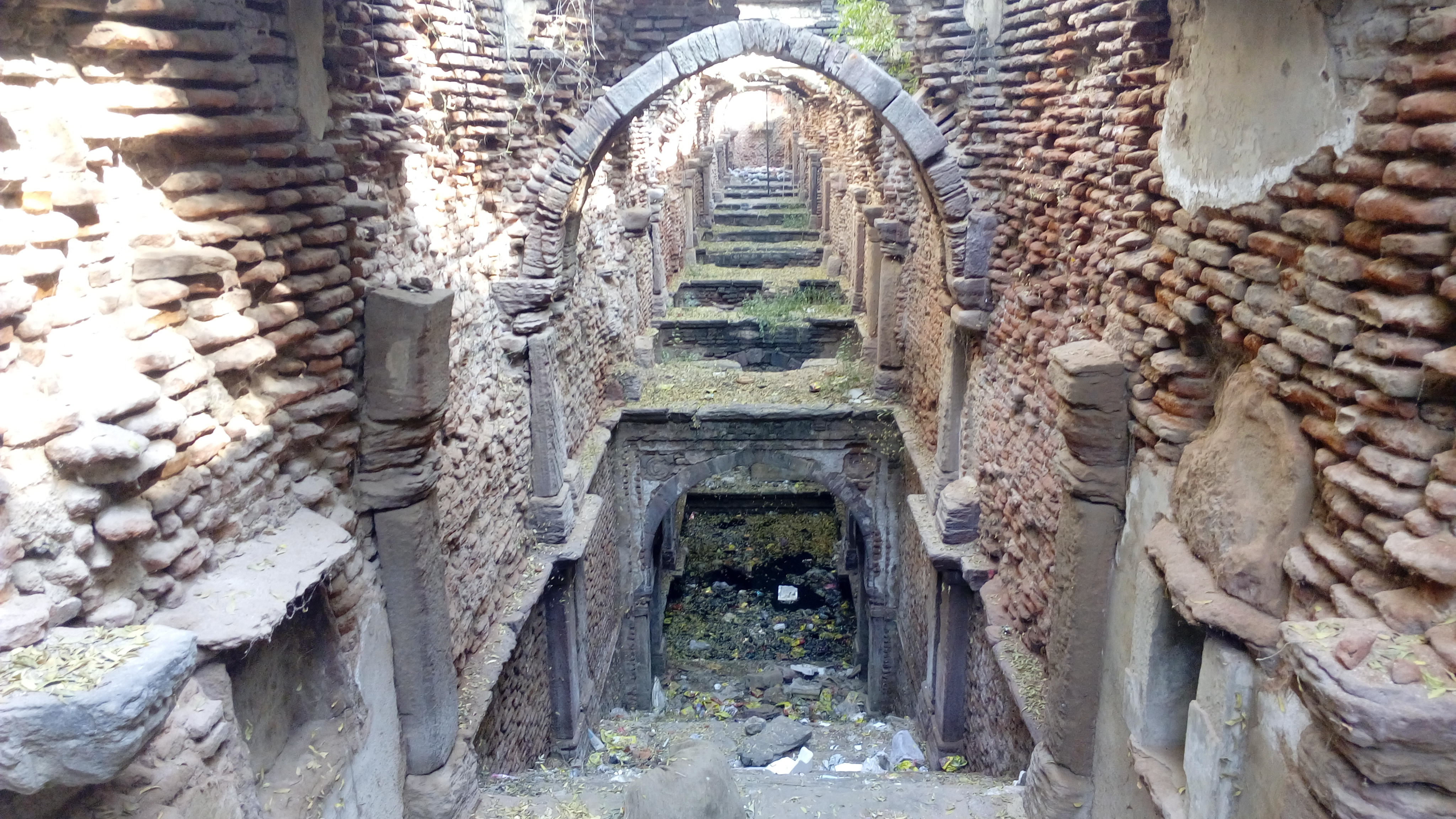 Boter Kotha ni Vav, a 18th century Stepwell in Mehsana, Gujarat, India.